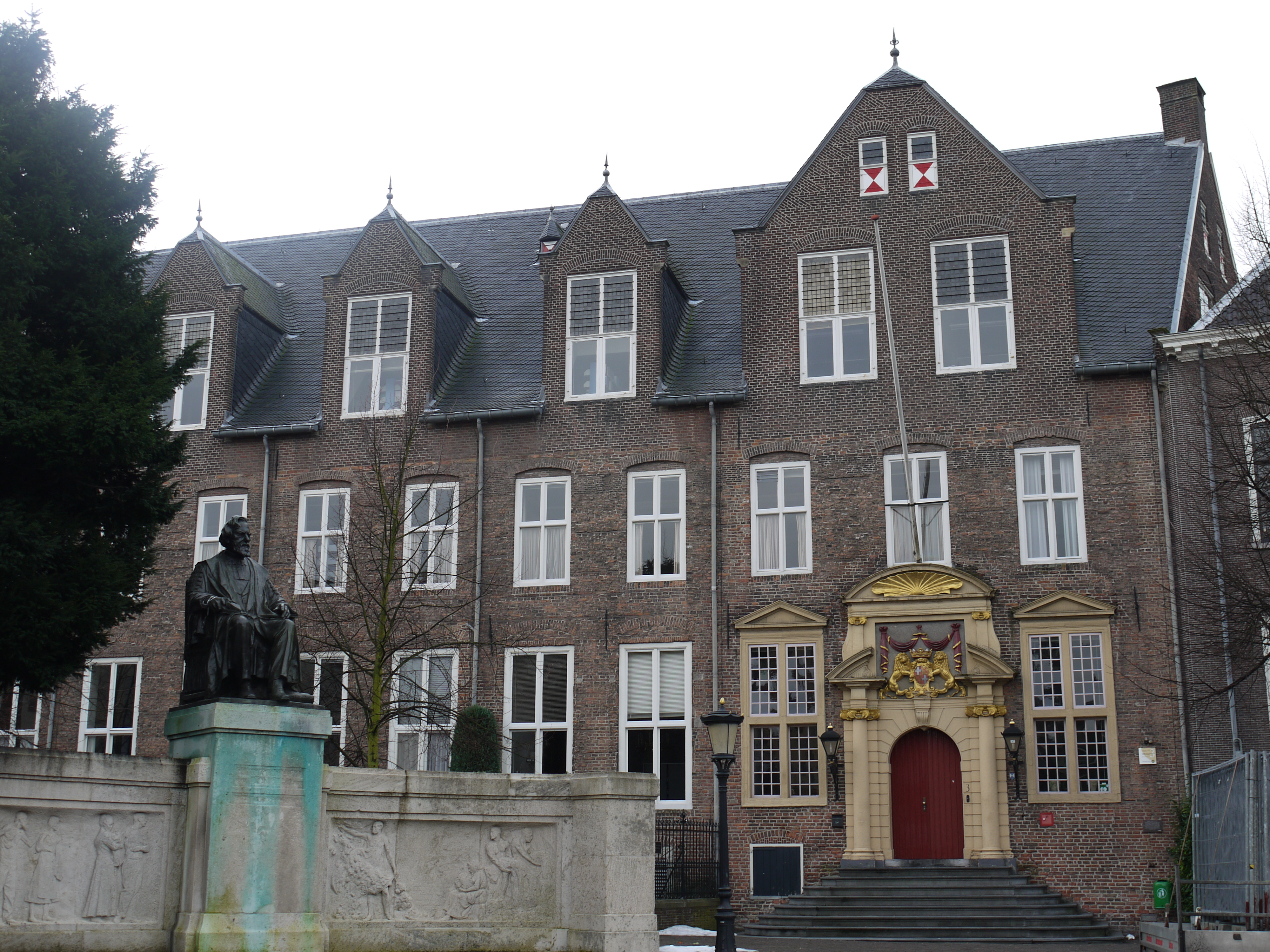 Statenkamer, former Minderbroedersklooster (a monastry), at Janskerkhof 3, Utrecht. Built 16th century. Its national-monument number is 36154.